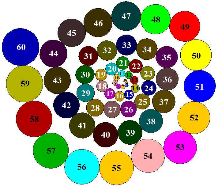 Comparison of regular polygons with 3 to 60 sides. Made by myself using Tyler.